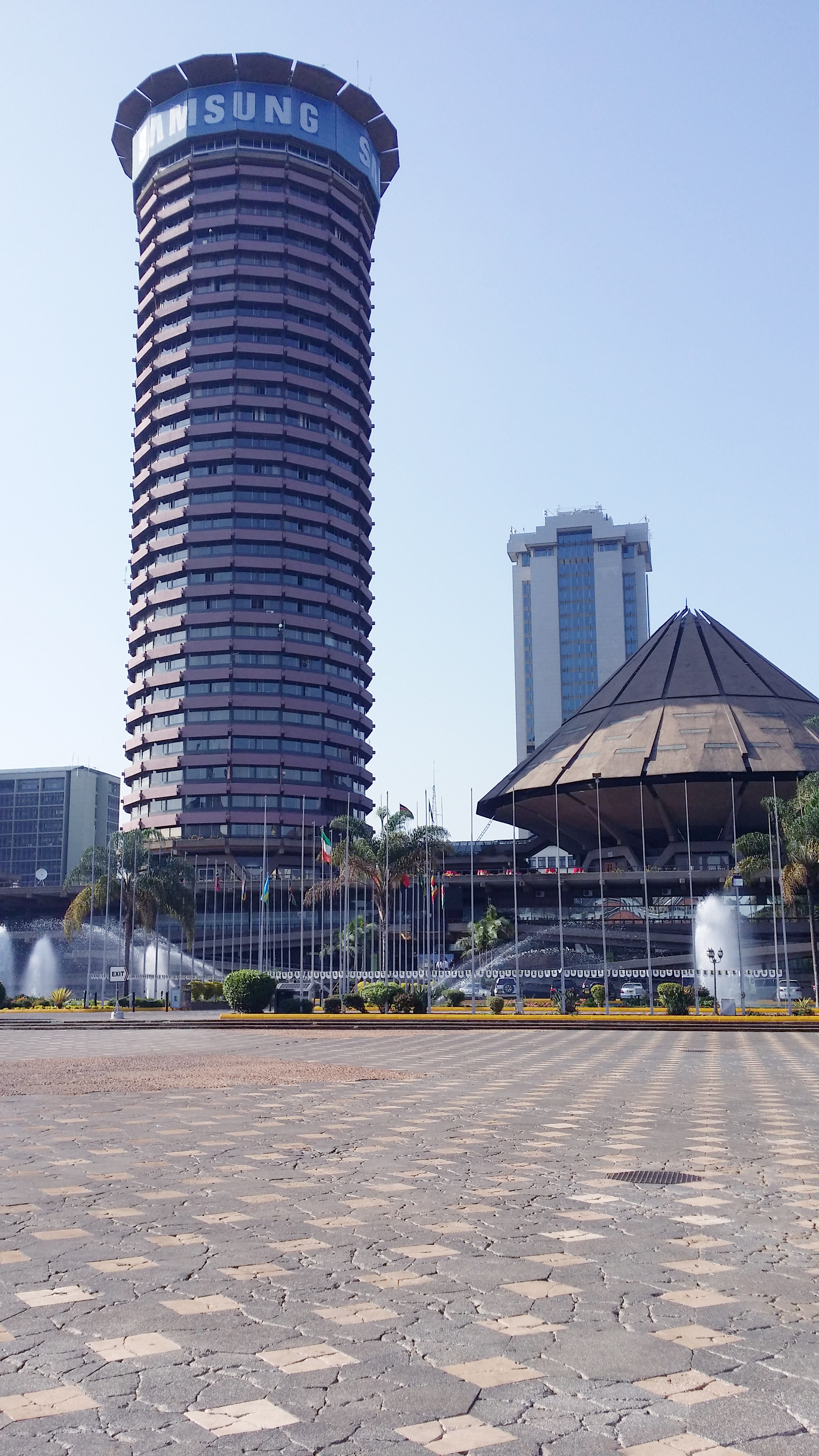 Kenyatta International Conference Centre